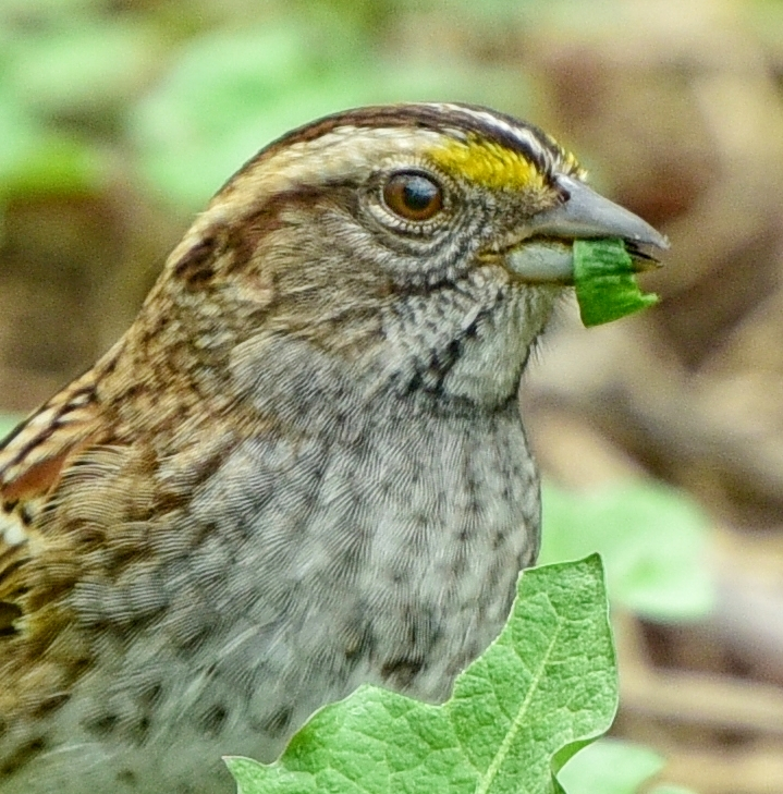 Closeup of a tan-striped form of a white-throated sparrow (Zonotrichia albicollis) eating a dandelion leaf in Humber Bay Park East in Toronto, Canada